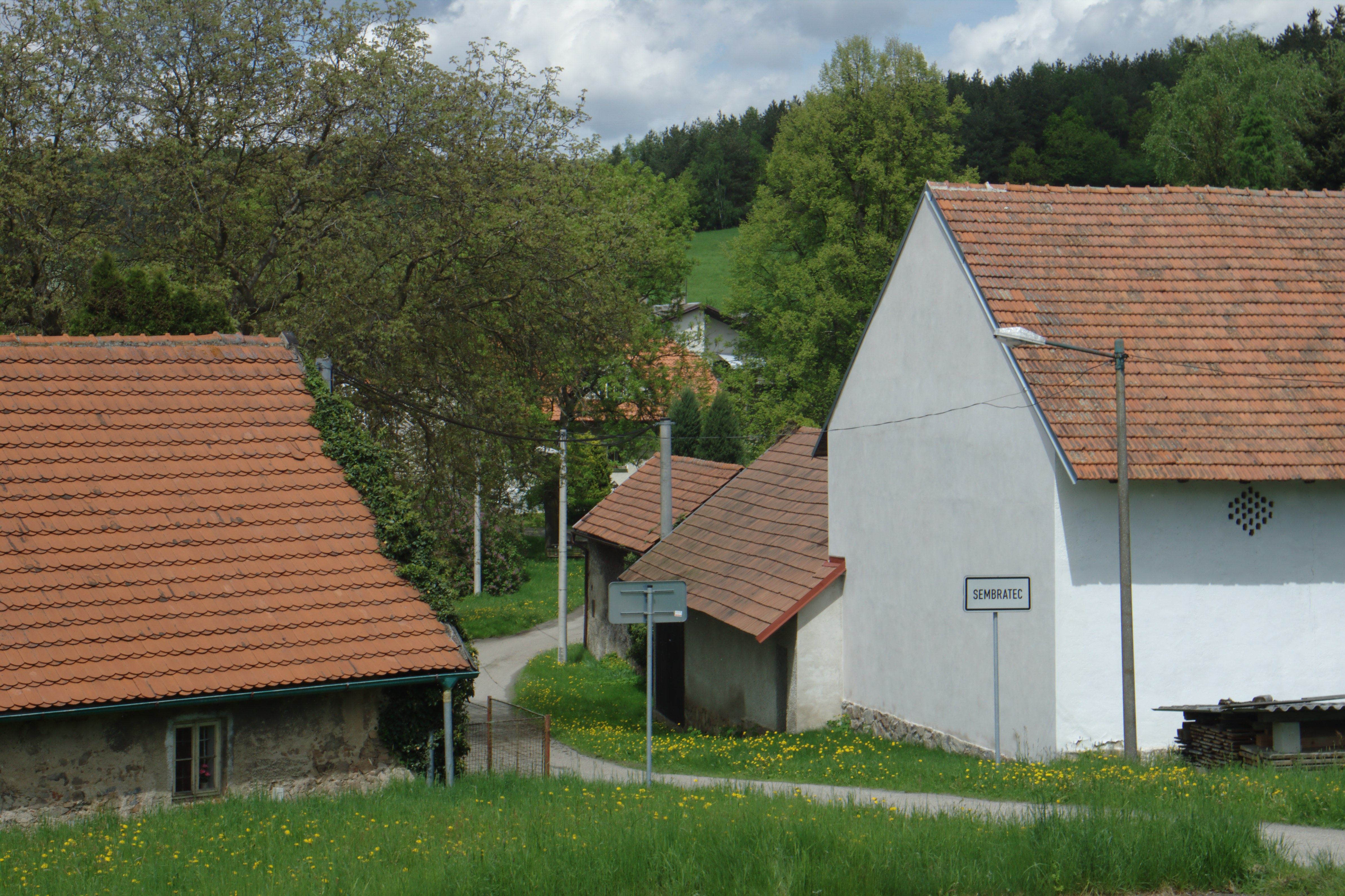 A village of Sembratec, part of Petroupim, Central Bohemian Region, CZ